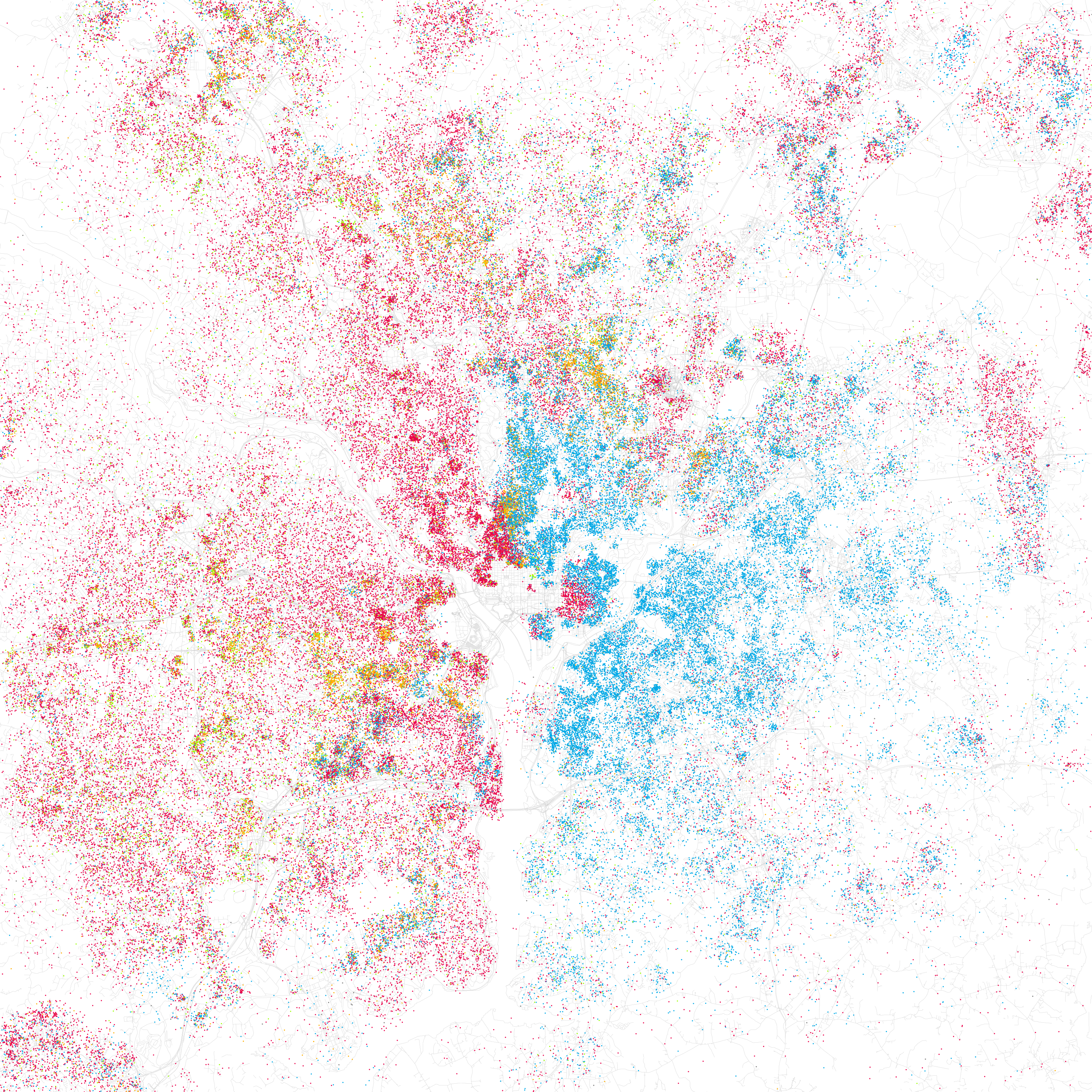 [Eric Fisher] was astounded by Bill Rankin's map of Chicago's racial and ethnic divides and wanted to see what other cities looked like mapped the same way. To match his map, Red is White, Blue is Black, Green is Asian, Orange is Hispanic, Gray is Other, and each dot is 25 people. Data from Census 2000. Base map © OpenStreetMap, CC-BY-SA